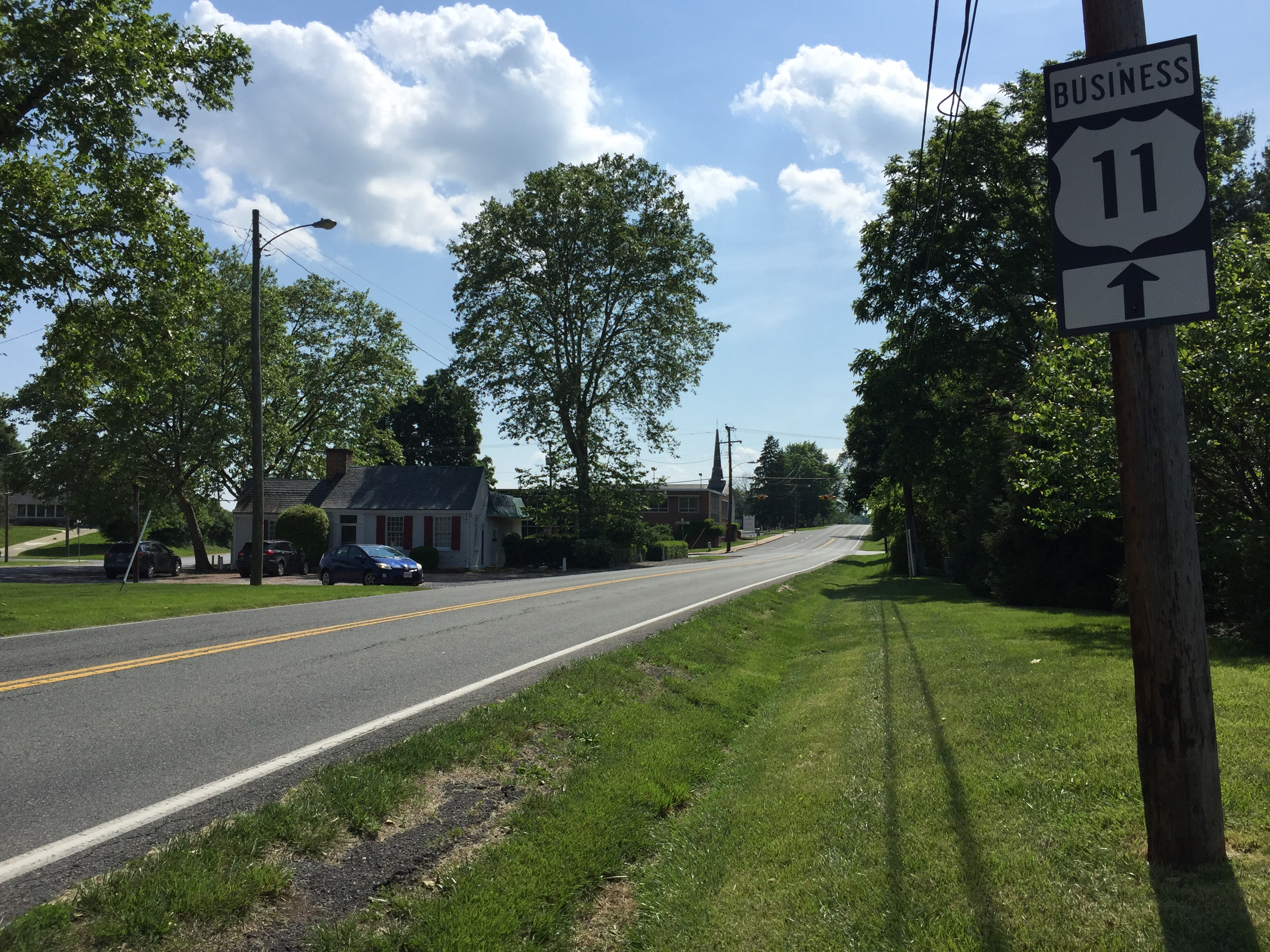 View south along U.S. Route 11 Business (North Augusta Street) near Baldwin Drive in Staunton, Virginia